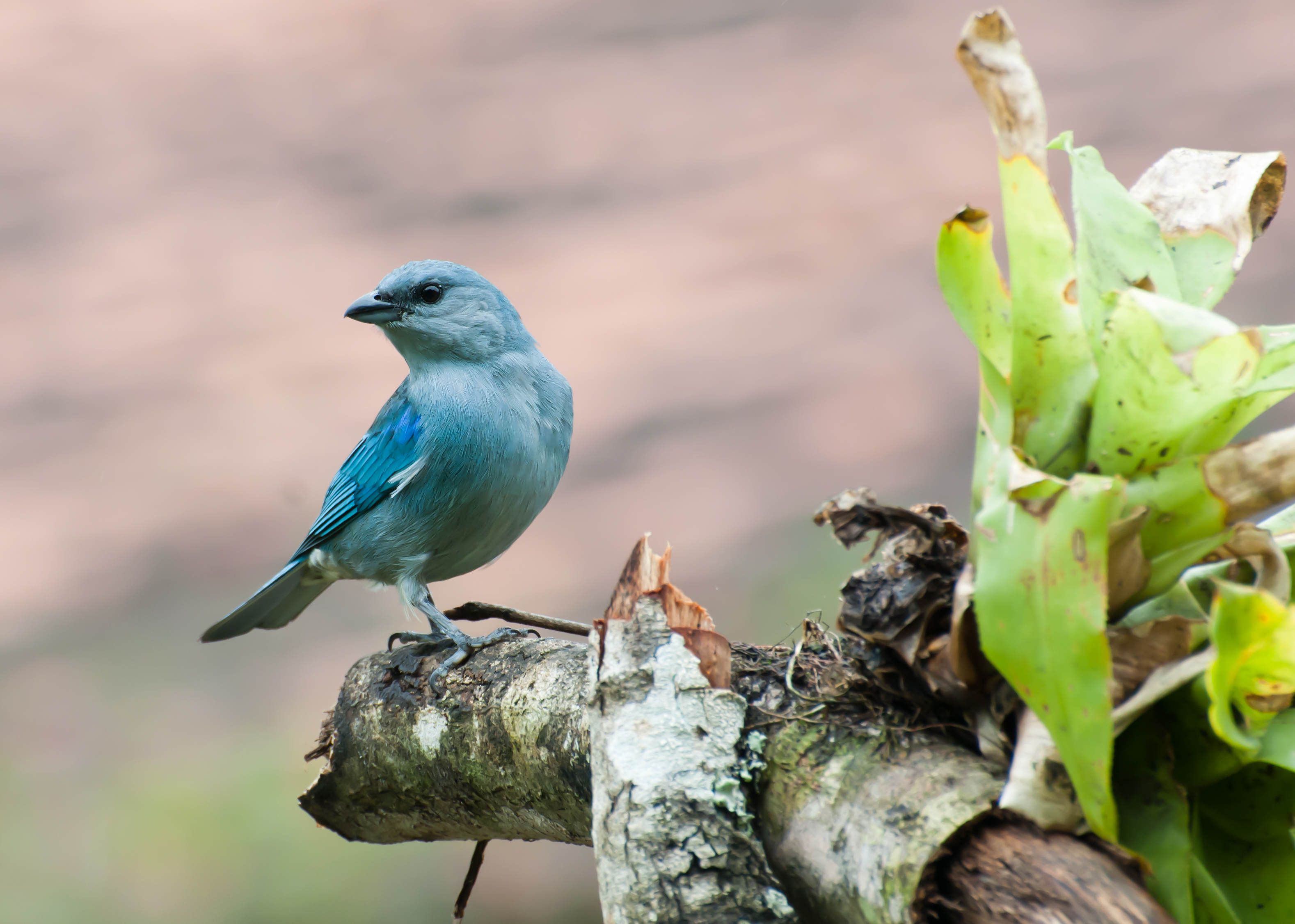 An Azure-shouldered Tanager in Reserva Guainumbi, São Luis do Paraitinga, São Paulo, Brazil.